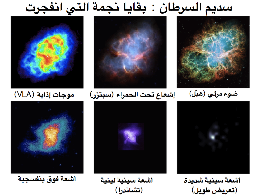 Supernova remnant: the Crab nebula.